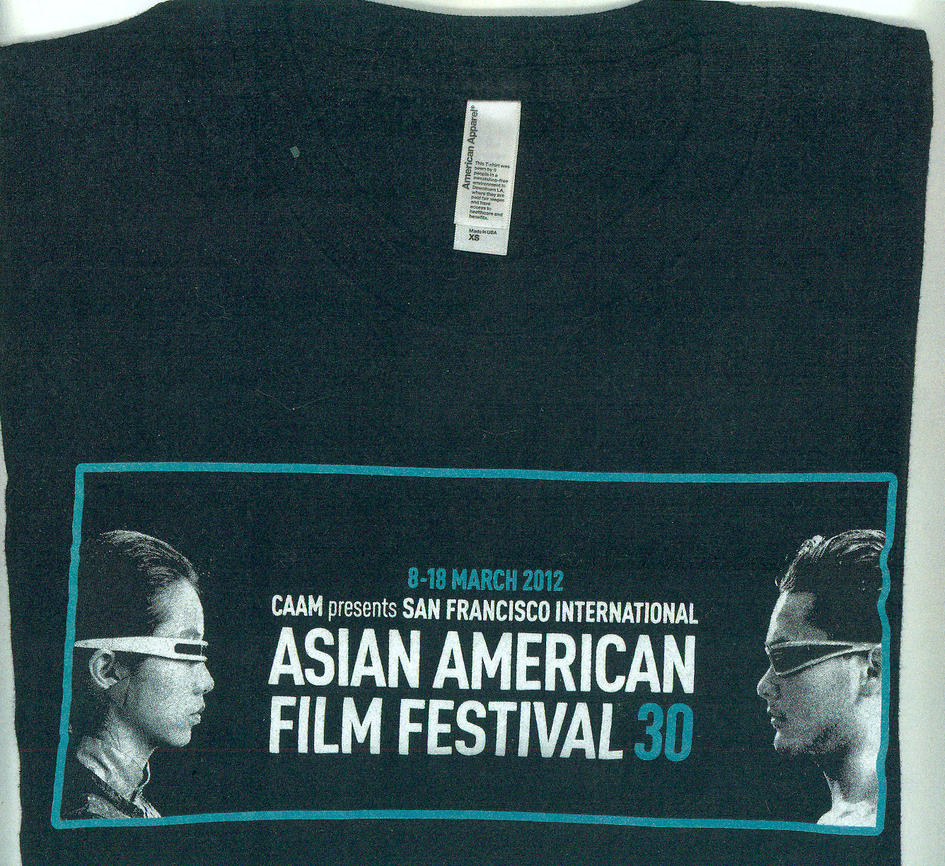 Commemorative t-shirt made for 30th anniversary of the San Francisco International Asian American Film Festival in 2012. Photograph of actors Tiana Alexandra and Mark Dascascos by Nancy Wong, 1983 San Francisco, California. Film festival sponsored by Center for Asian American Media is now named, CAAMfest.